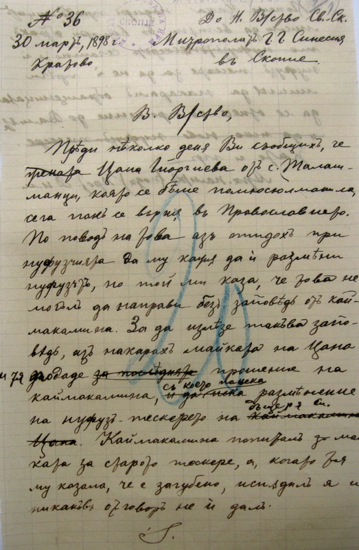 The Vicar of Kratovo notifying the Metropolitan of Skopje that Tsana Georgieva converted to Islam, and then returned to Orthodox Christianity, but that the authorities refuse to issue a permission for her return.